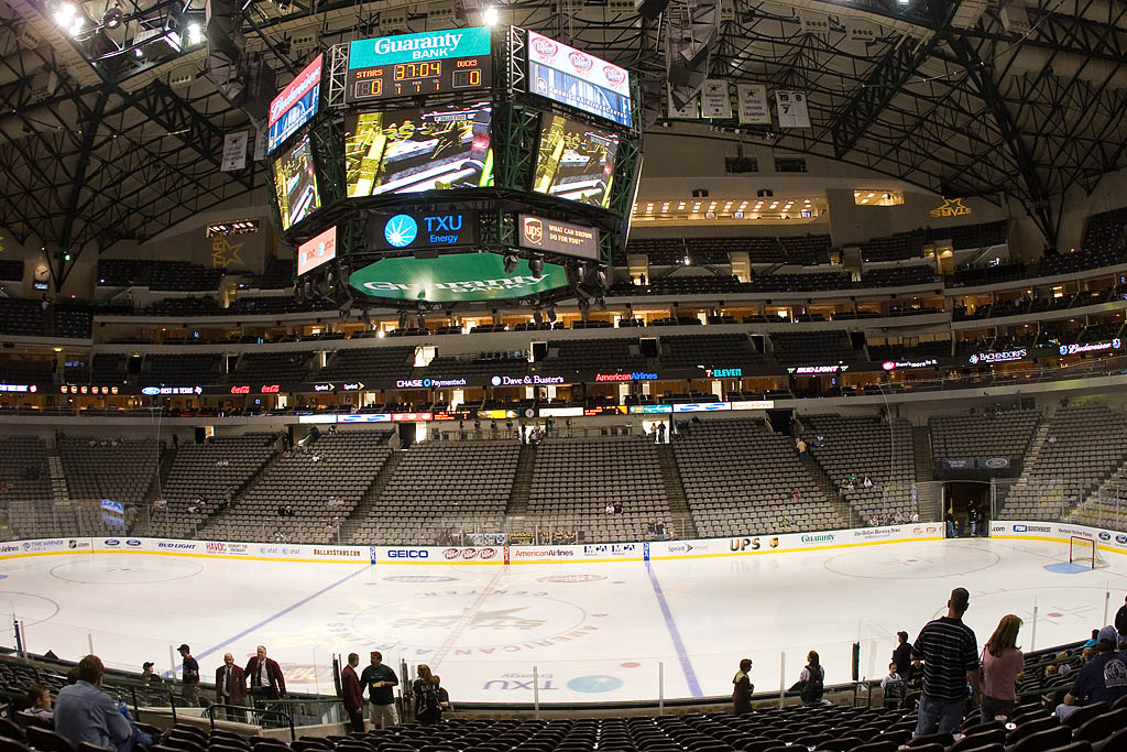 American Airlines Center